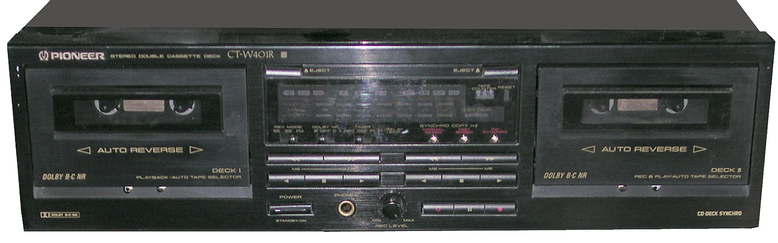 Pioneer CT-W401R double tape deck